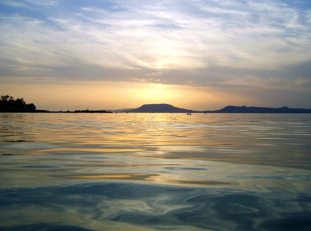 Sunset at Balaton. Badacsony in background.